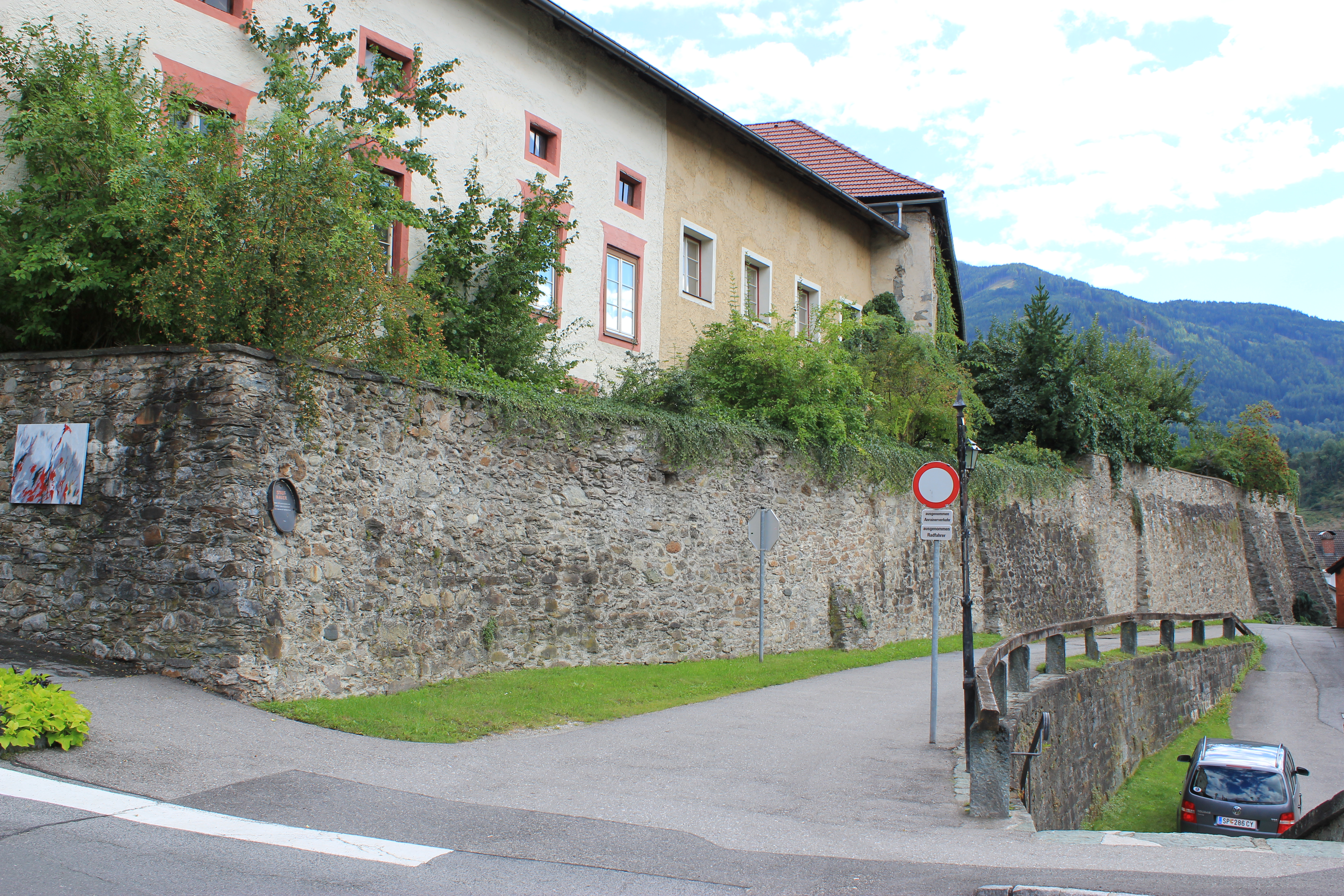 Part of the city-wall in Gmünd